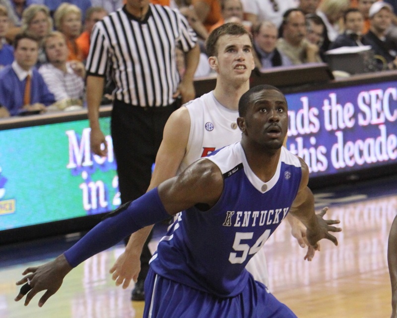 Patrick Patterson scores 16 points